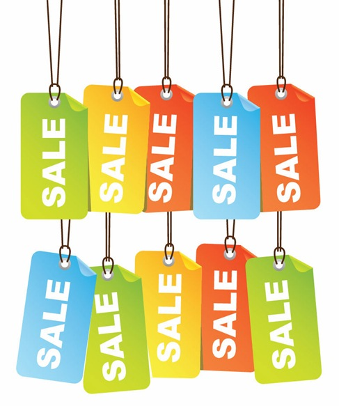 Vector illustration of sale tags